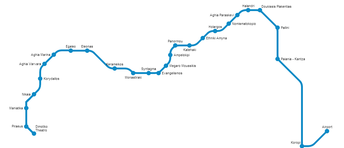 Line 3 map. Light cyan represents future extensions. Whereas white dots represent stations to be constructed.